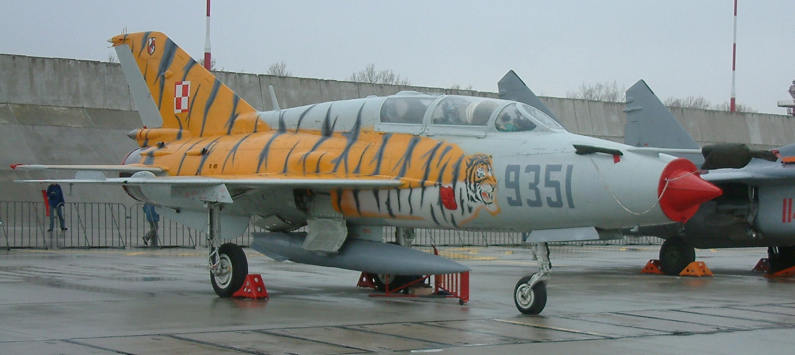 MiG-21UM #9351, markings of 3rd Tactical Sqd. of Polish Air Force, 31st. Air Base Poznań-Krzesiny